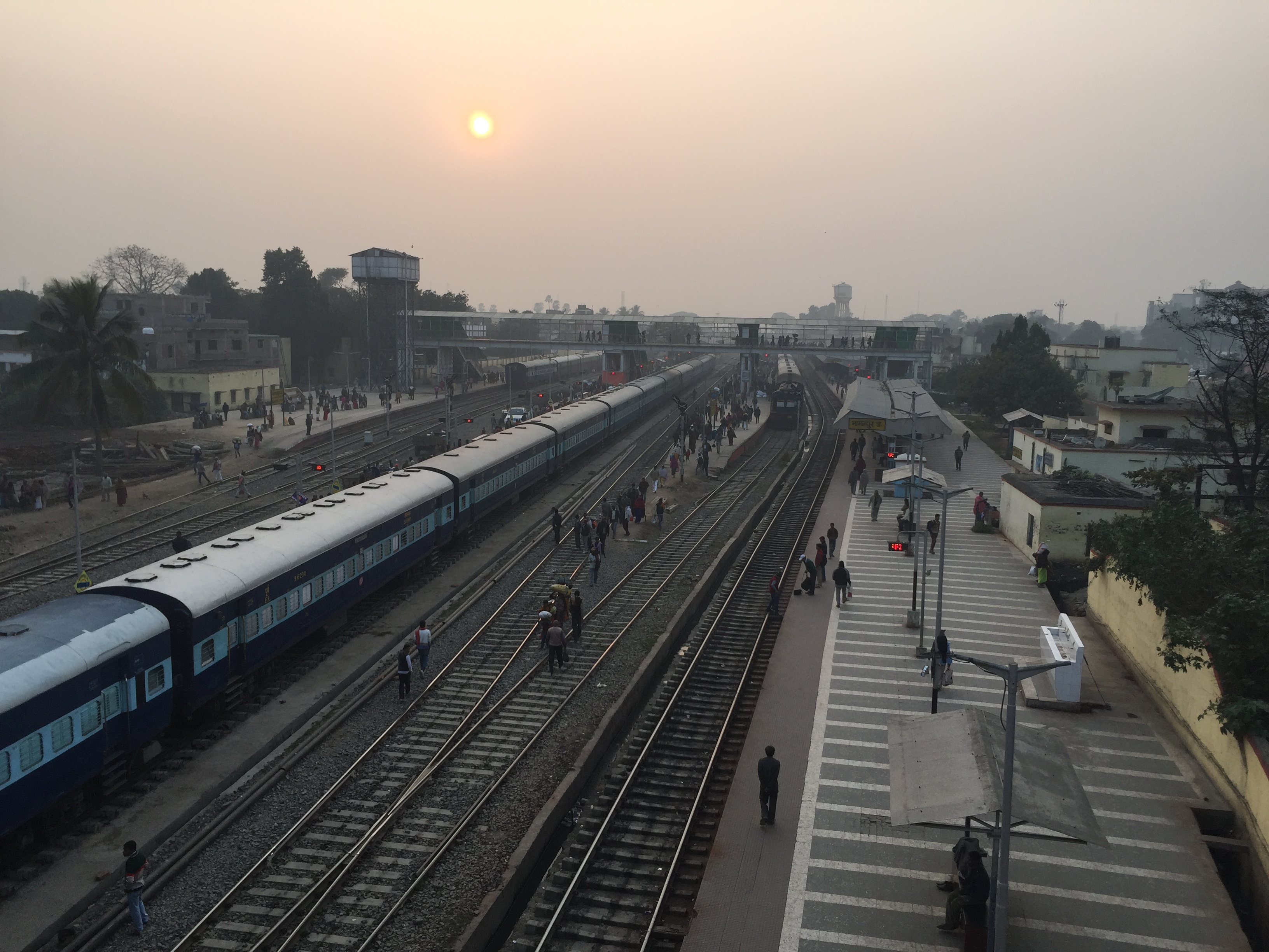 Bhagalpur Railway Station